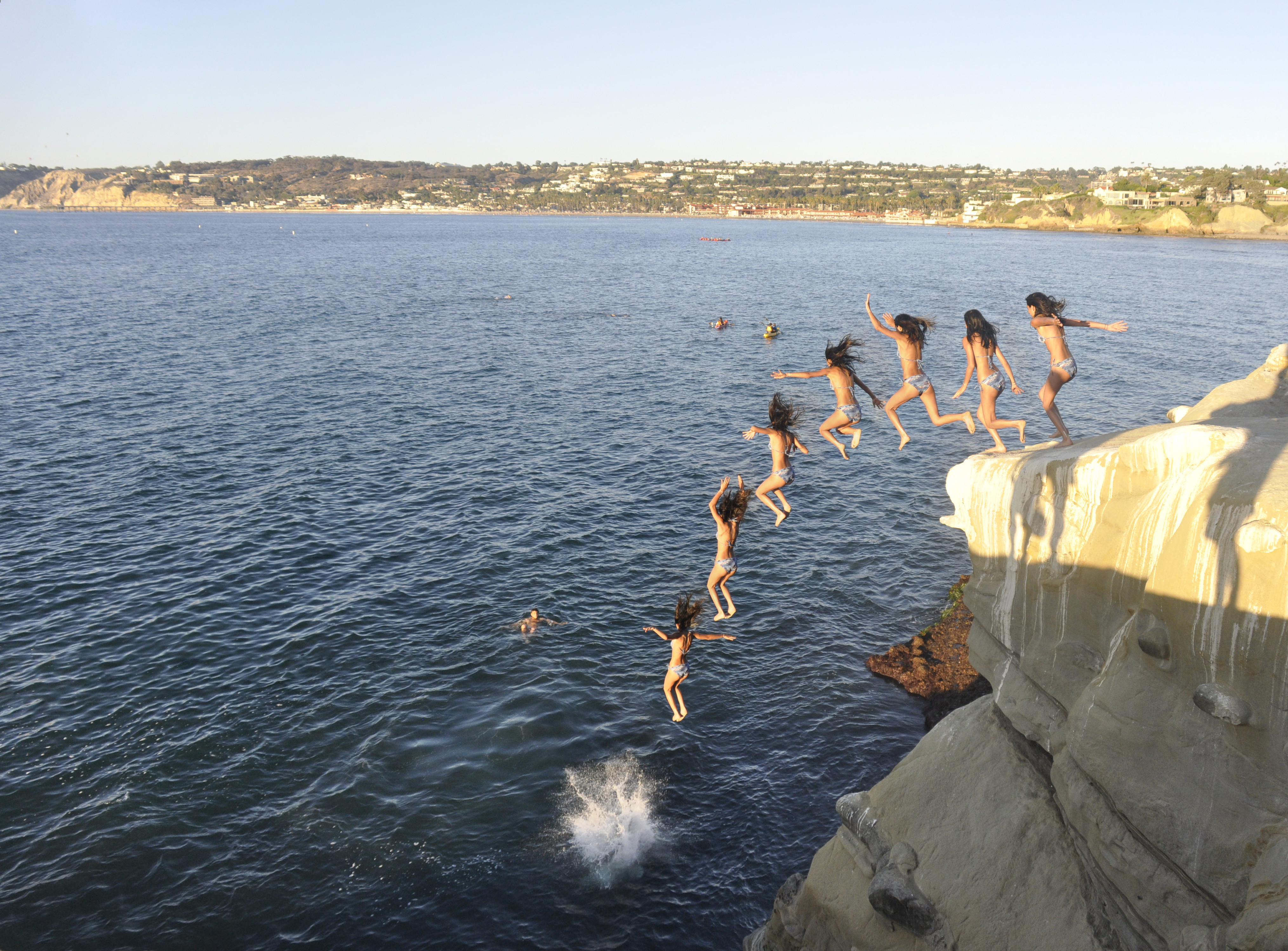 Cliff jumping near the big cave at La Jolla Cove, with La Jolla Shores in the background.